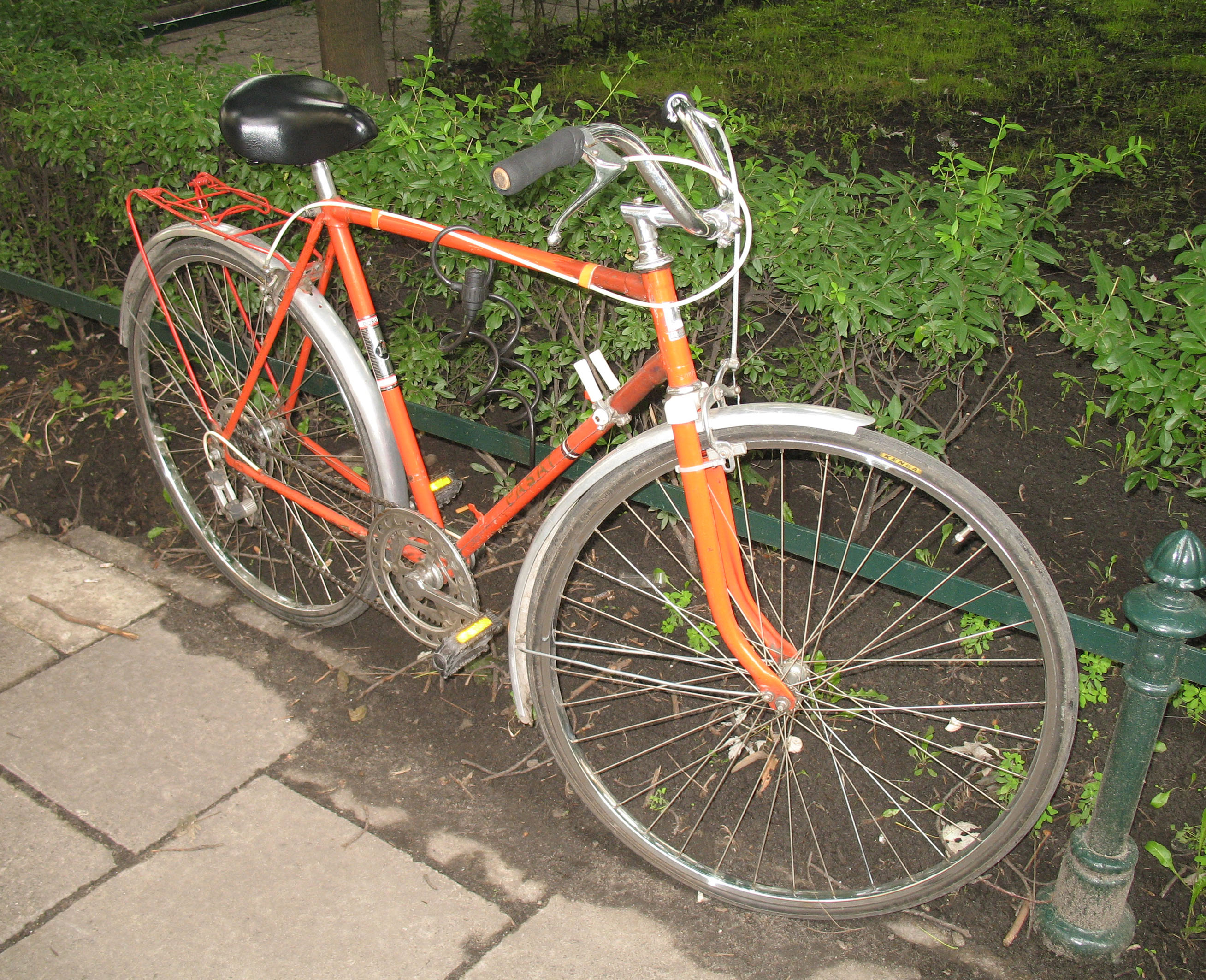 Romet Pasat bicycle in Kraków, Poland.